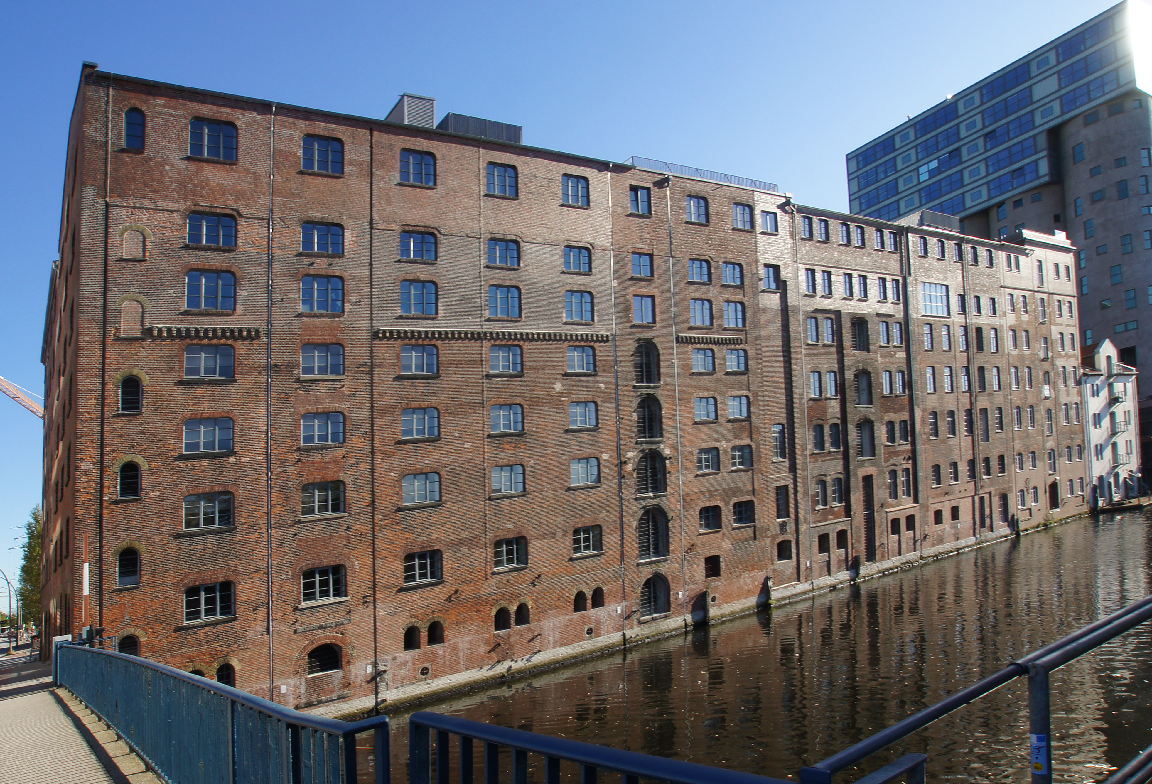 Hamburg (Harburg), Germany: Warehouse at the Westlicher Bahnhofkanal